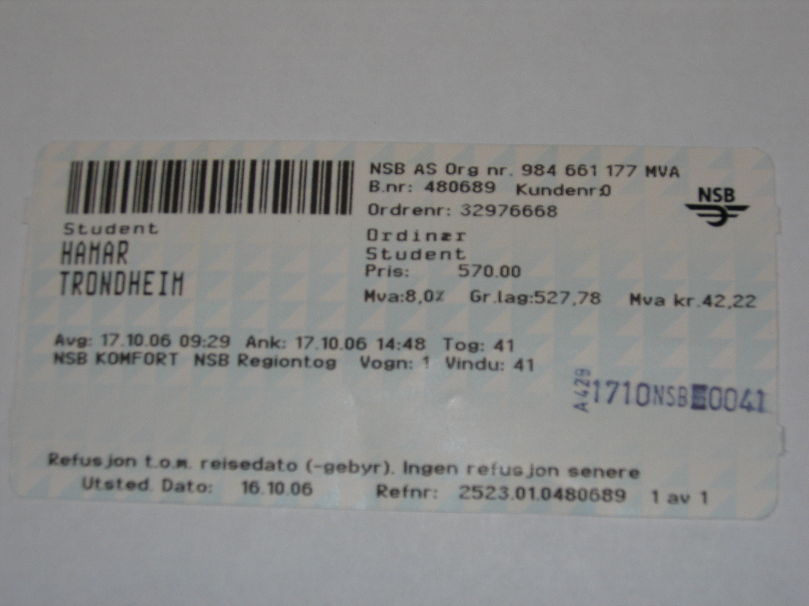 NSB Train ticket 2006, Hamar - Trondheim.